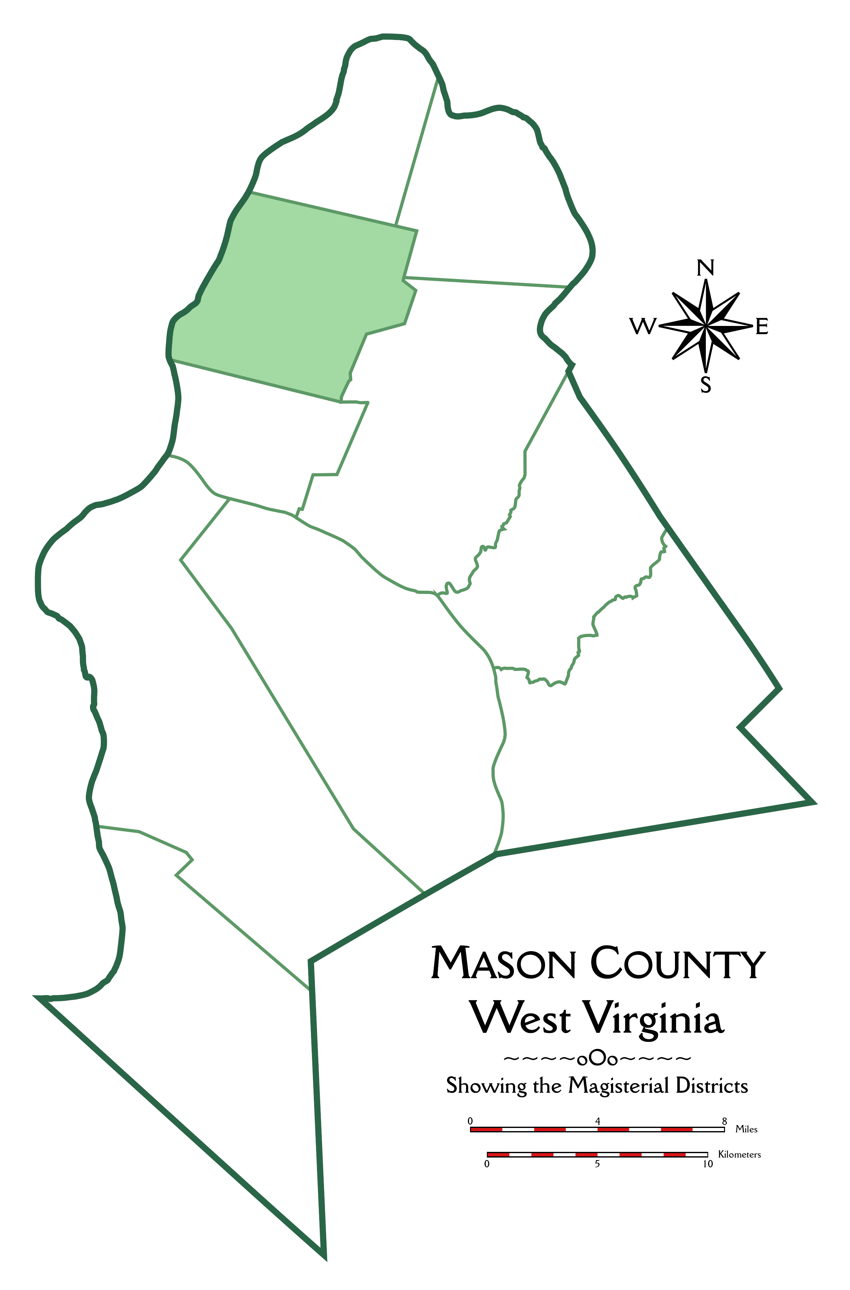 This is an outline map of Mason County, West Virginia, showing the boundaries of the magisterial districts. Robinson District is highlighted.